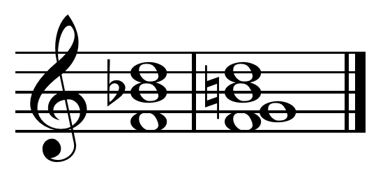 ♭VII-V7 cadence in C. Created by Hyacinth (talk) 22:55, 22 December 2010 using Sibelius 5.